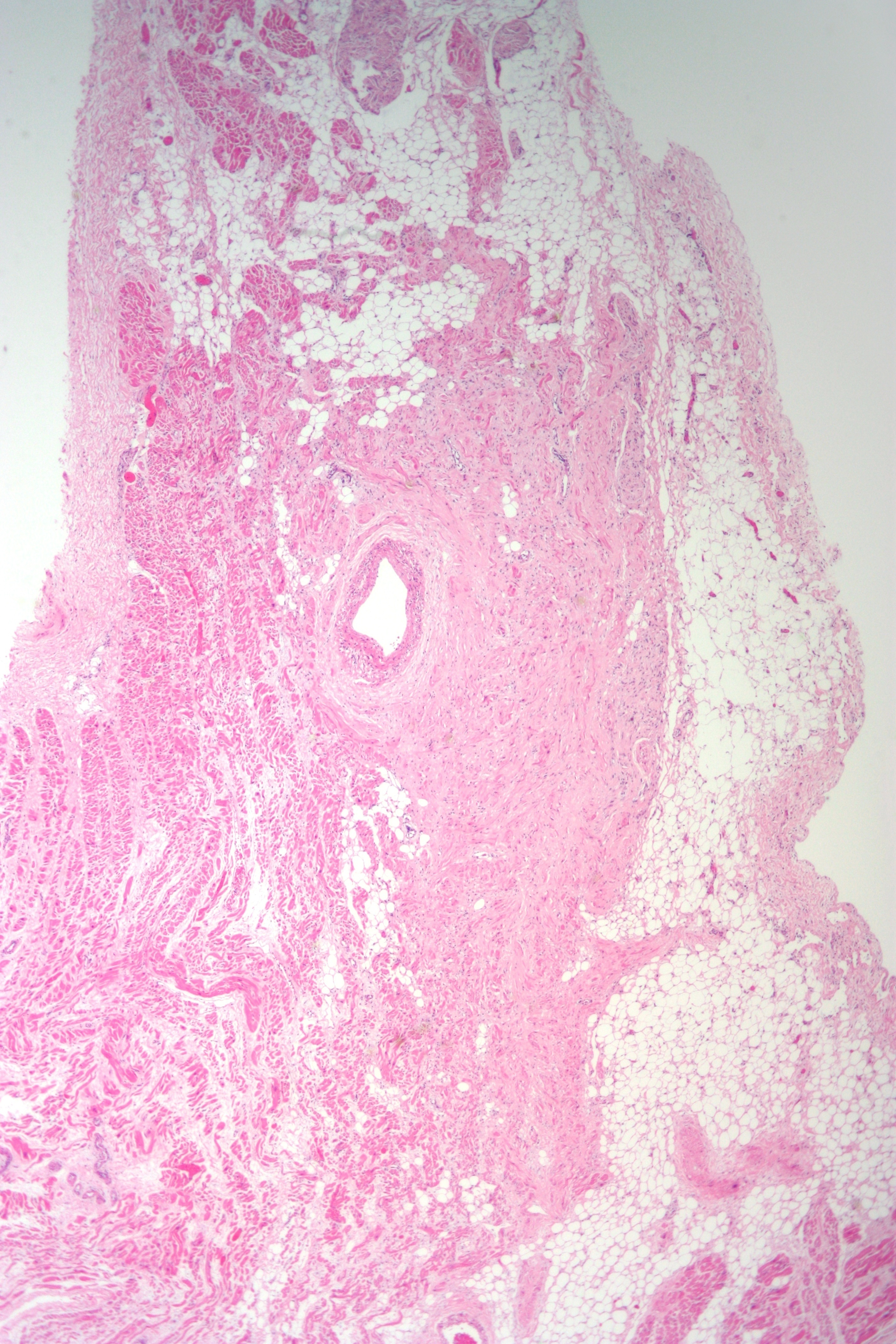 Micrograph of the sinoatrial (SA) node. H&E stain. The SA node fibre vaguely resemble cardiac myocytes; however, they are thinner, squiggly and stain less intensely (on H&E) than cardiac myocytes. Description of the micrograph - the follow things are seen: Cardiac myocytes of the right atrium are seen at the right/bottom. Nodal artery, a branch of the right coronary artery is seen in the centre - on lumen. Sinoatrial node surrounds the nodal artery and abuts the darker staining cardiac myocytes. Lumen of the right atrium is on the left (endothelial lining not seen). Epicardial apidose tissue is to the right of the SA node. Epicardial space is on the right of the image. Superior vena cava is at the top of the image. Adjacent to nodal tissue is a nerve; the SA node interacts with fibres from the vagus nerve. Related images High mag. image of the same SA node. Low mag. image of the same SA node.